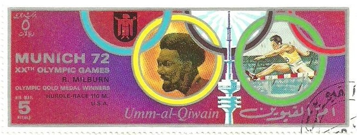 Rod Milburn